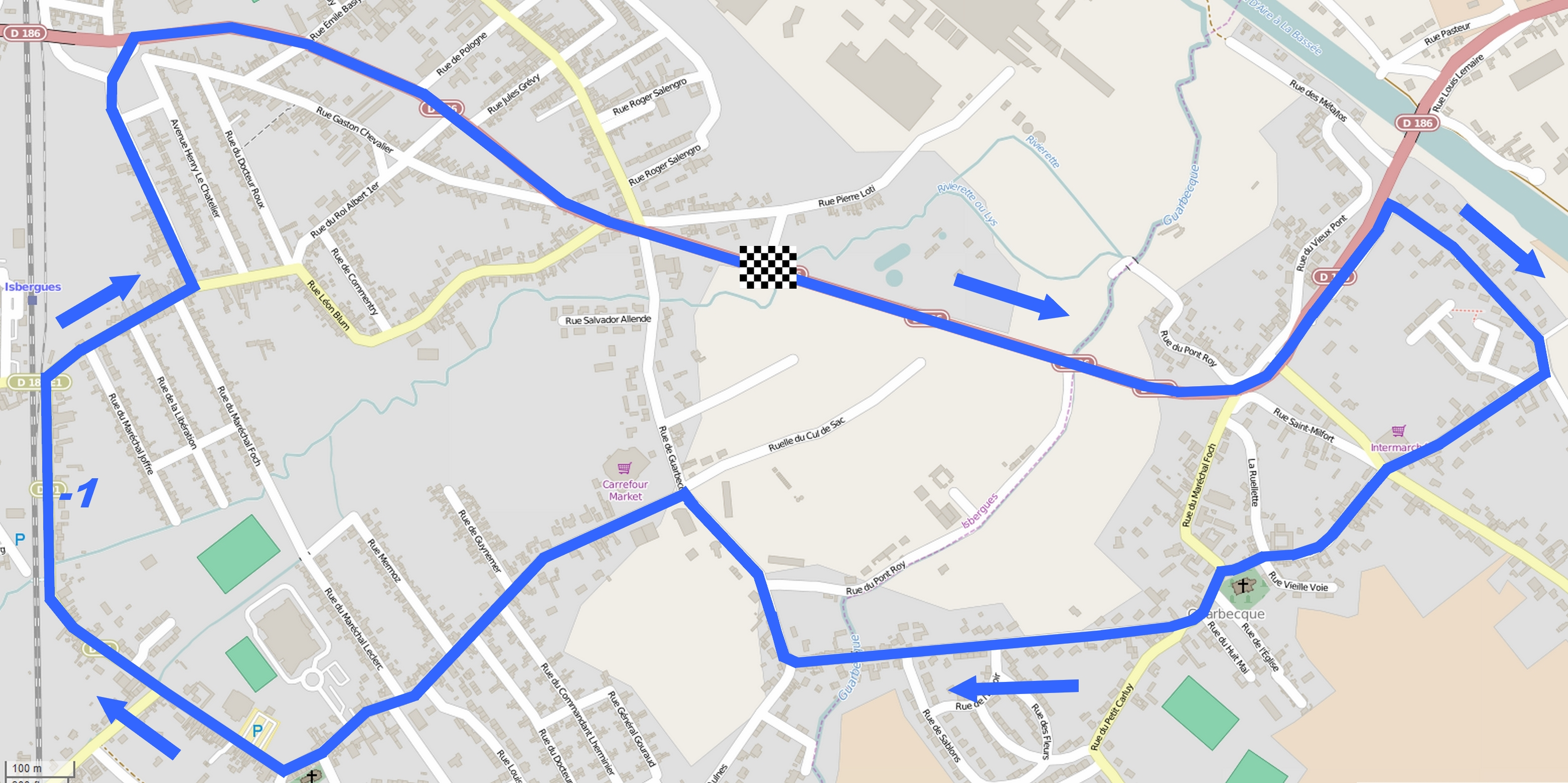 Parcours du circuit final du Grand Prix d'Isbergues 2014. This map may be incomplete, and may contain errors. Don't rely solely on it for navigation.